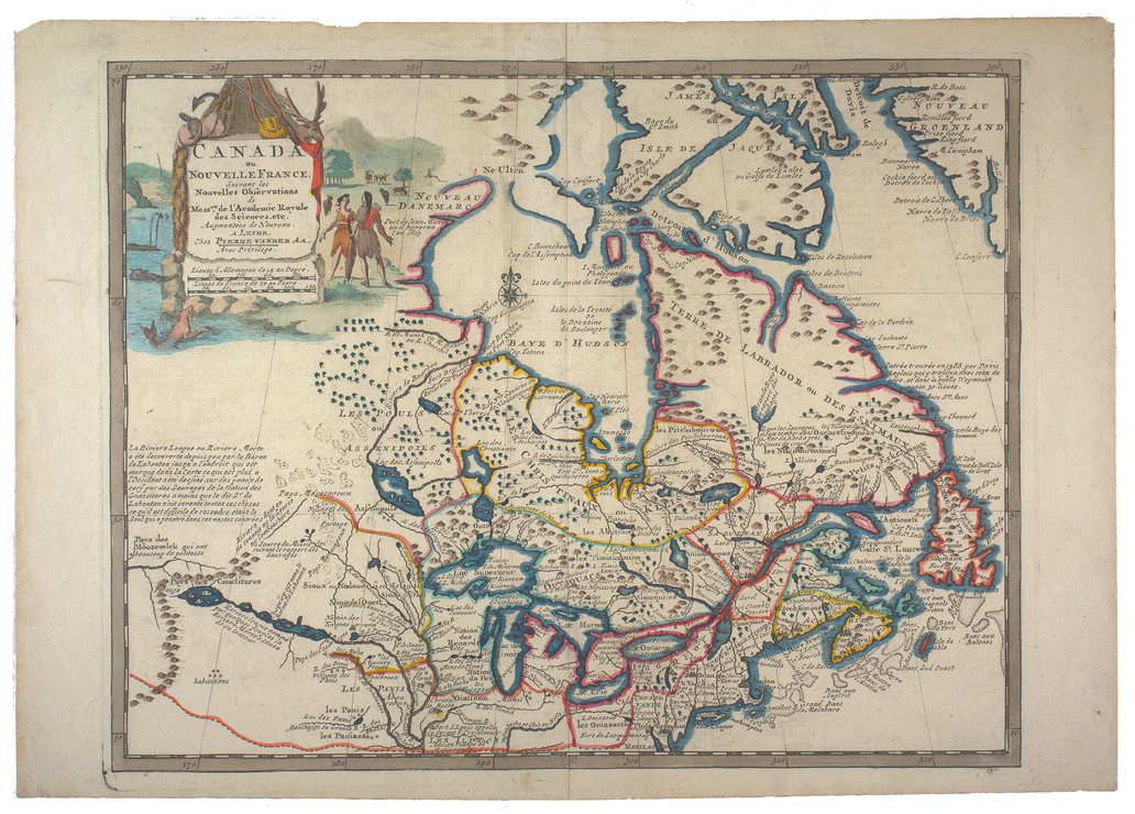 Historical map of Eastern Canada or Nouvelle France